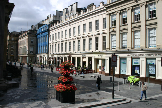 North side of Royal Exchange Square